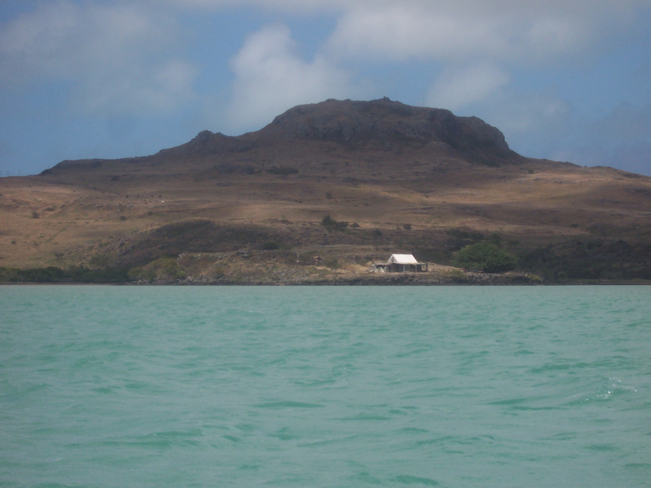 The almost uninhabited western part of Rodrigues island Near Pointe Pistache ? Dysmorodrepanis (talk) 04:08, 10 November 2009 (UTC)